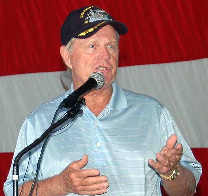 060927-N-4549D-002 Golfer Jack Nicklaus fields questions from Mayport-area sailors who filled the hangar bay of the USS John F. Kennedy (CV-67) to see the golfer. During his visit to the Naval Station, Nicklaus met with Mayport-area Sailors and received a personal tour of the Kennedy by Commanding Officer Capt. Todd A. Zecchin.